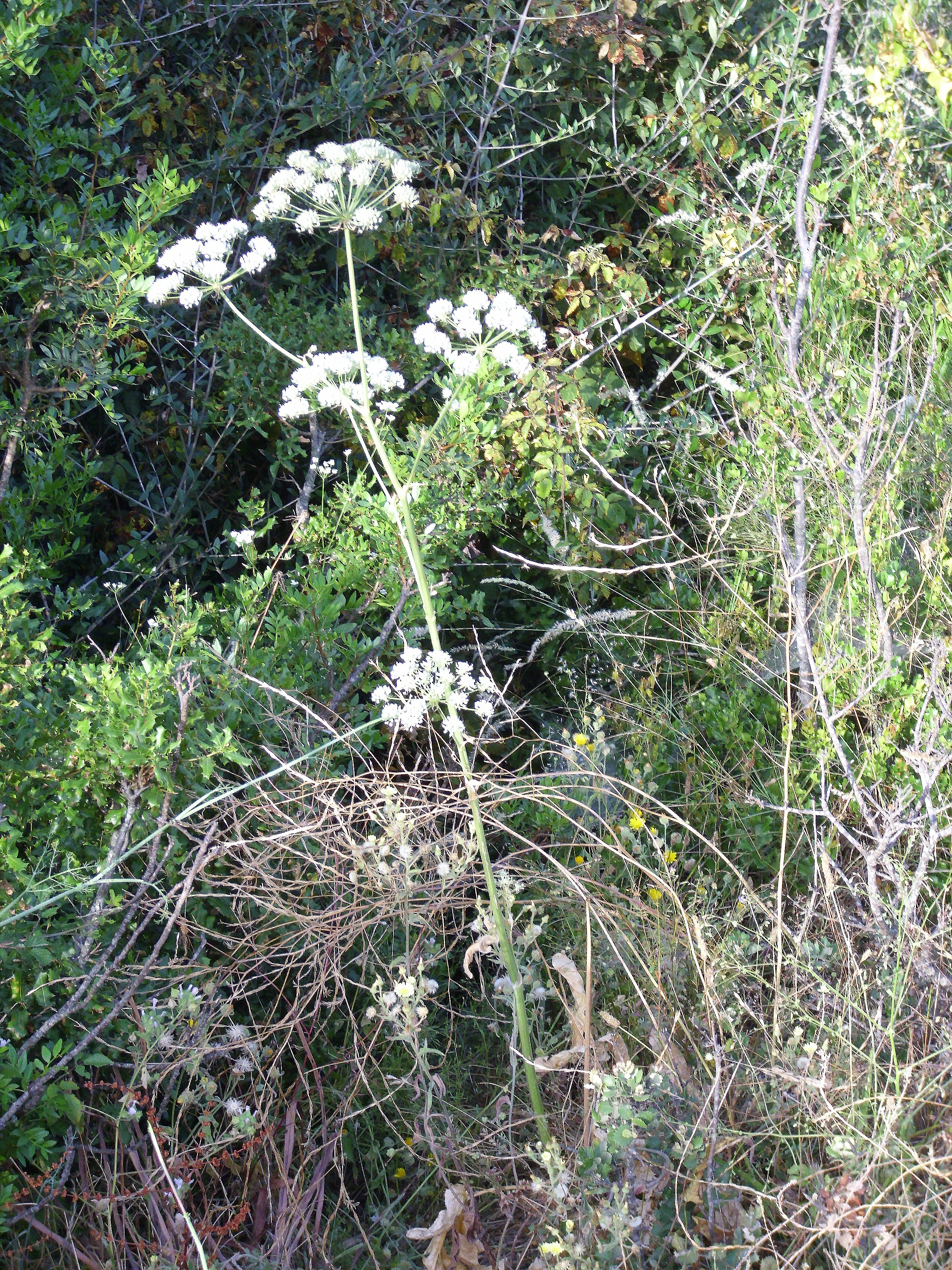 Magydaris panacifolia and polinator, Sierra Madrona, Spain